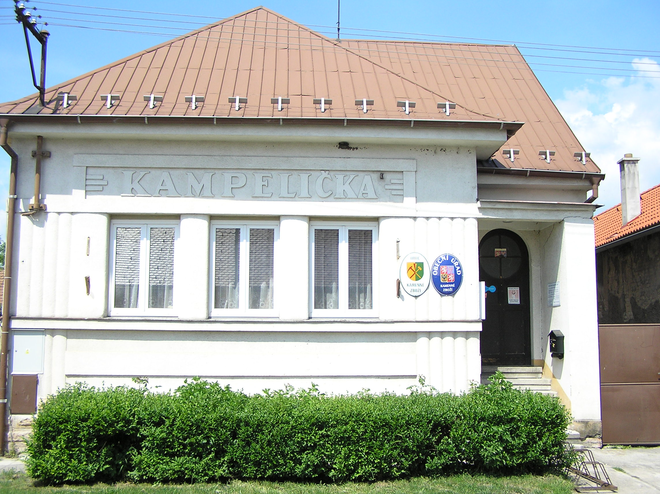 Kamenné Zboží, the local authority